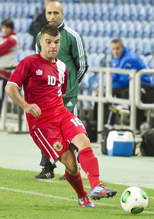 Liam Walker vs. Slovakia in UEFA debut